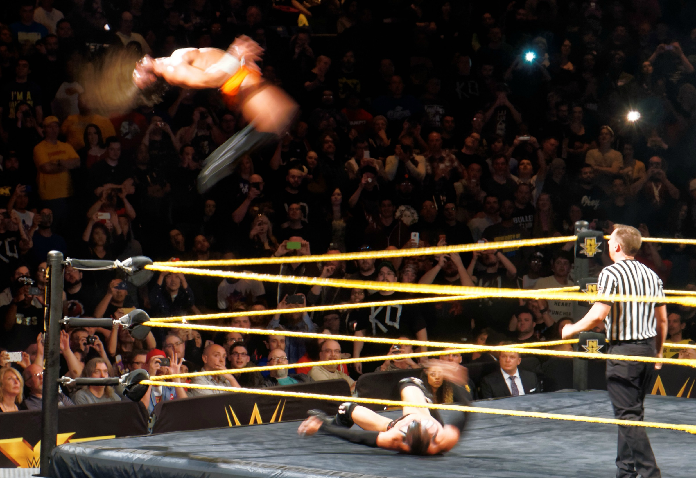 Neville performing his finisher the "Red Arrow" during an WWE NXT Live event in March 2015.